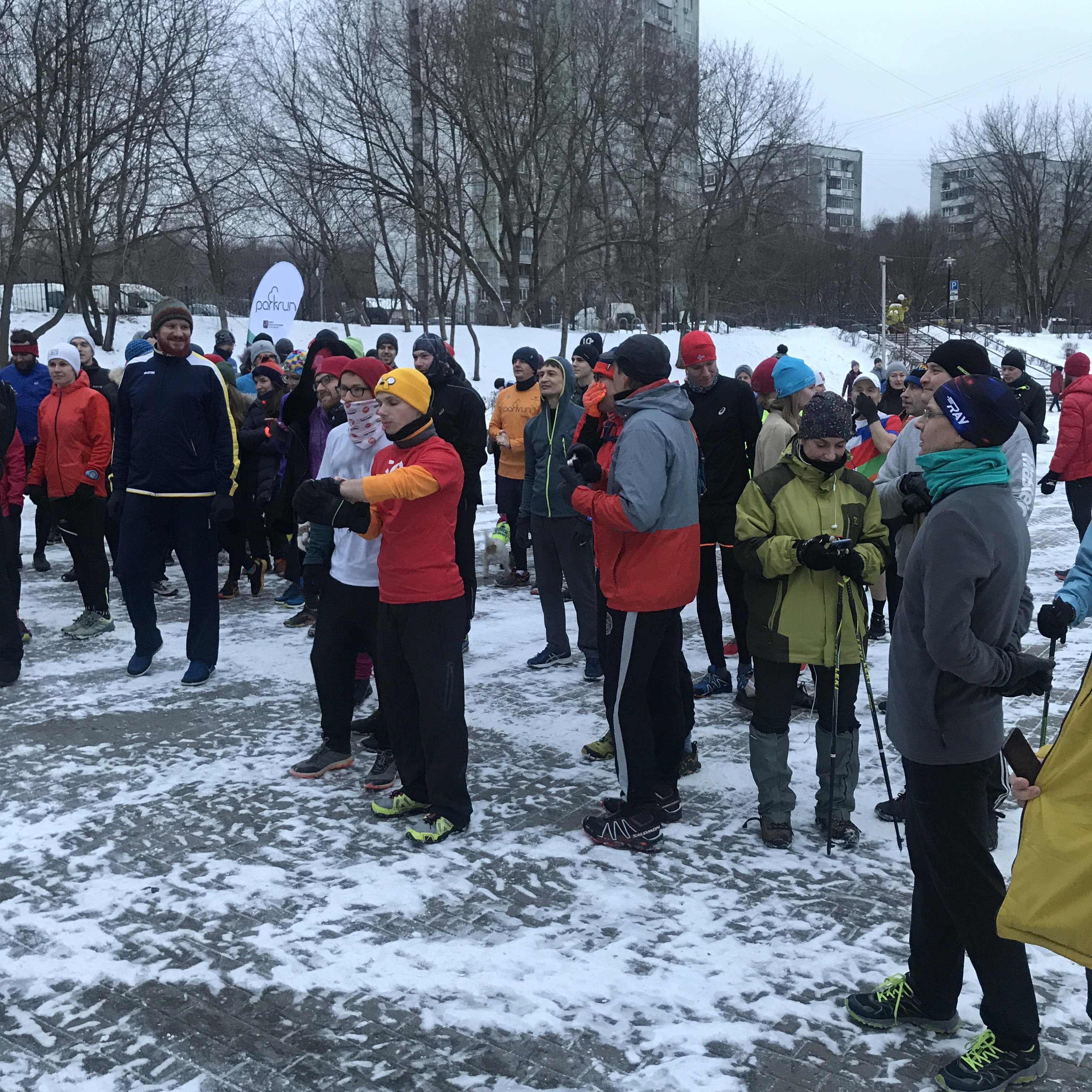 Parkrun Chertanovo Pokrovsky Park 1 — 15.12.2018